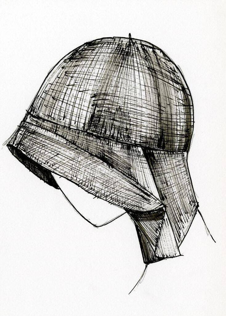 The description of the concept in this drawing is: Hats with a bell-shaped crown. (AAT)